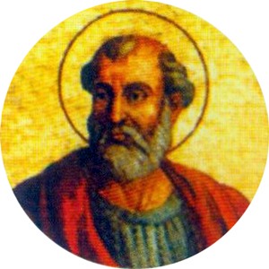 Portait of Pope Cornelius in the Basilica of Saint Paul Outside the Walls, Rome